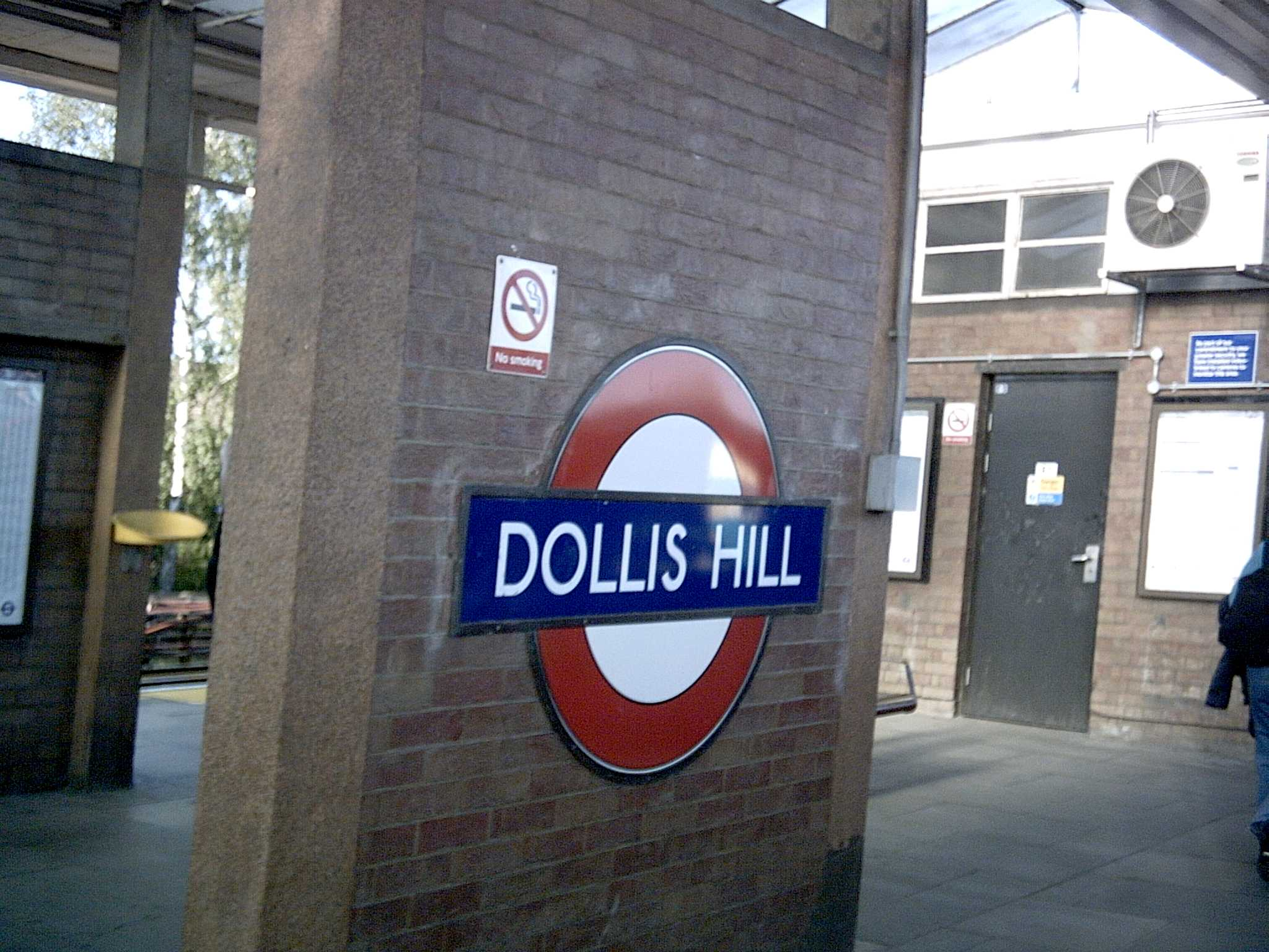 Station platform from a northbound Jubilee Line train.